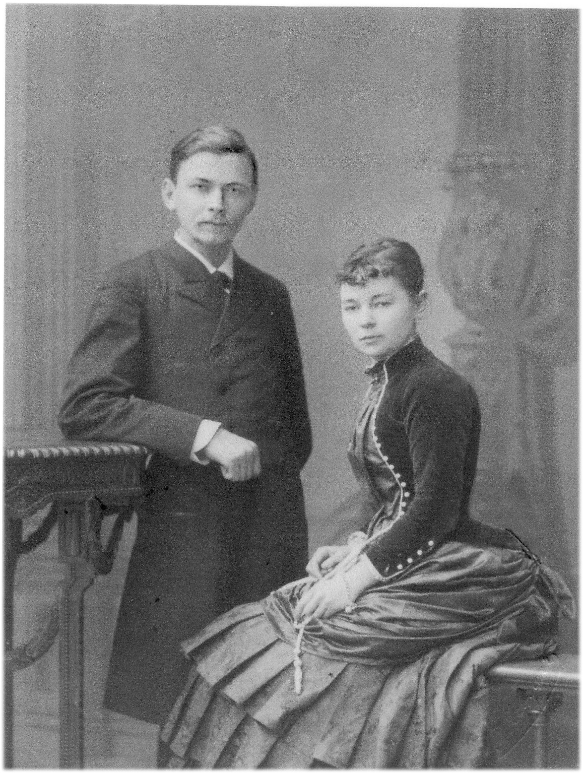 Georg August Forstén (1857-1910) with his wife